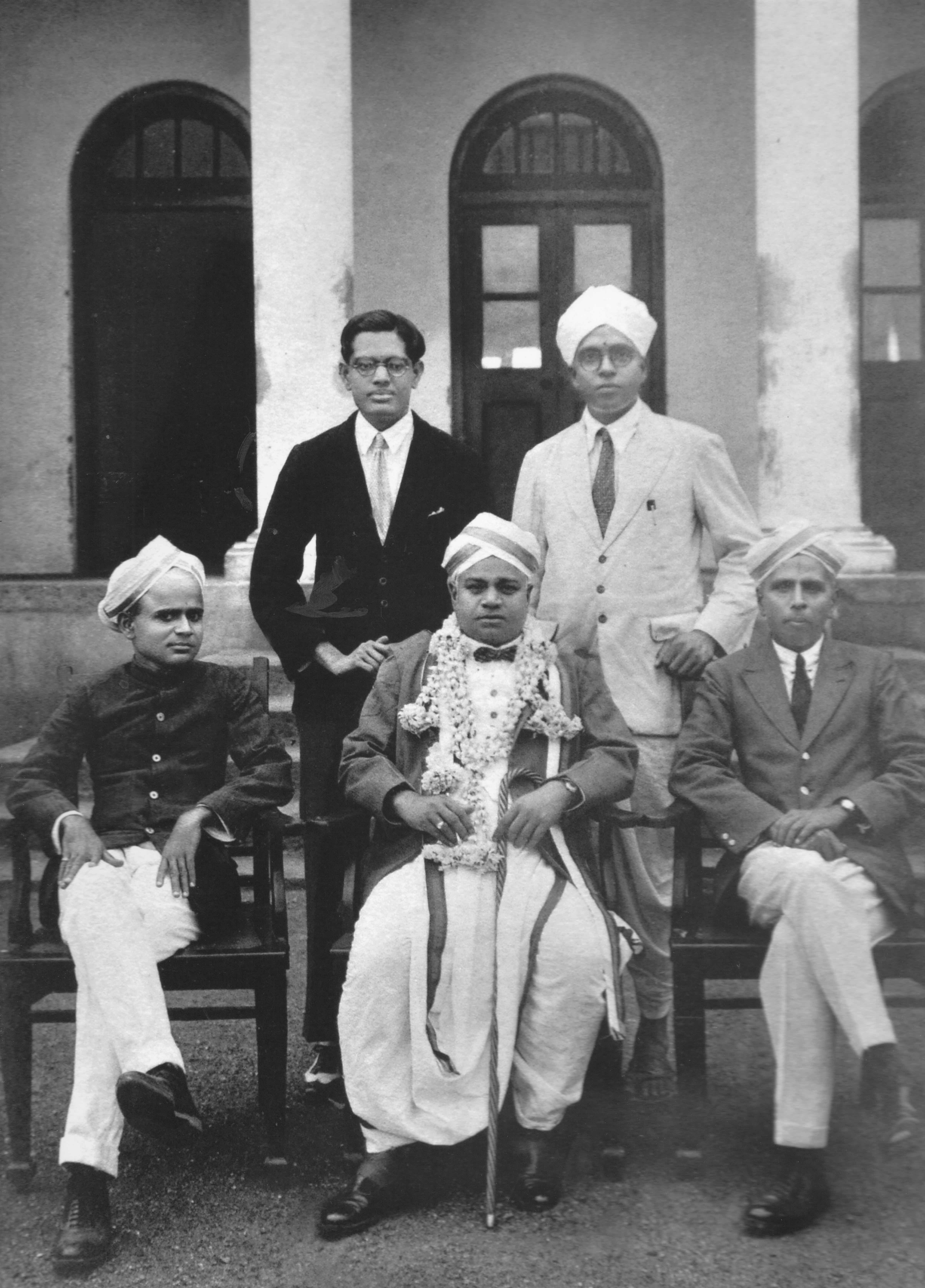 Group Photograph of History Department of University of Mysore showing S. Srikanta Sastri with his teacher Prof S. V. Venkateswara (sitting in the middle)